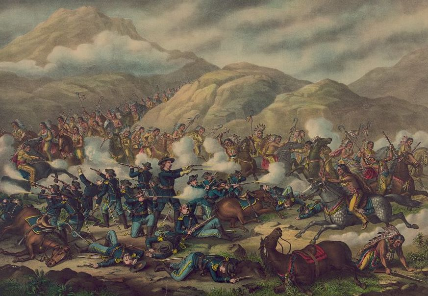 Title: Battle of the Big Horn Physical description: 1 print. Notes: This record contains unverified data from PGA shelflist card.; Associated name on shelflist card: Kurz & Allison.